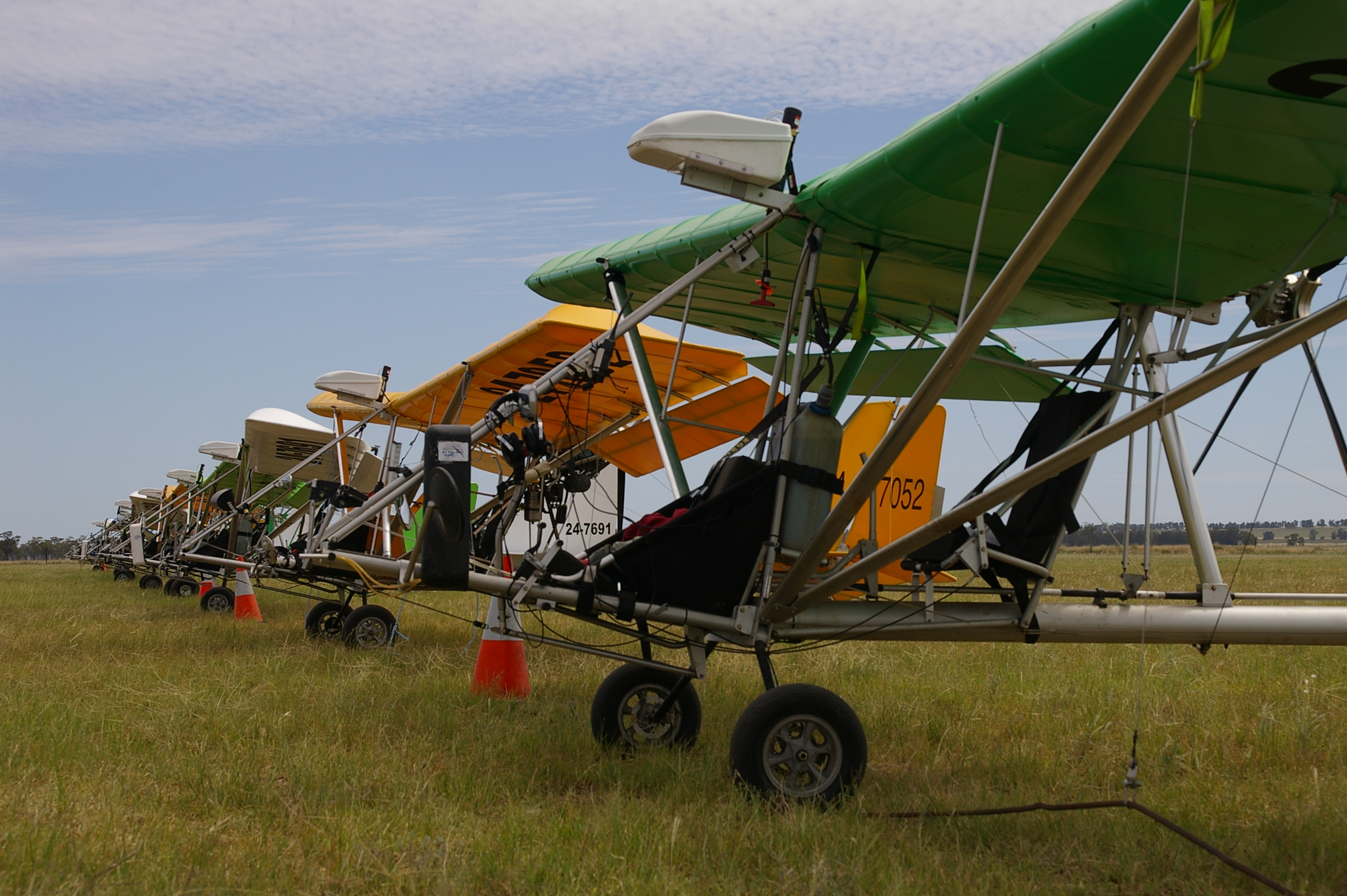 The fleet of Dragonflies is ready for work. In the space of one and a half hours they will tow over 100 hang gliders into the air